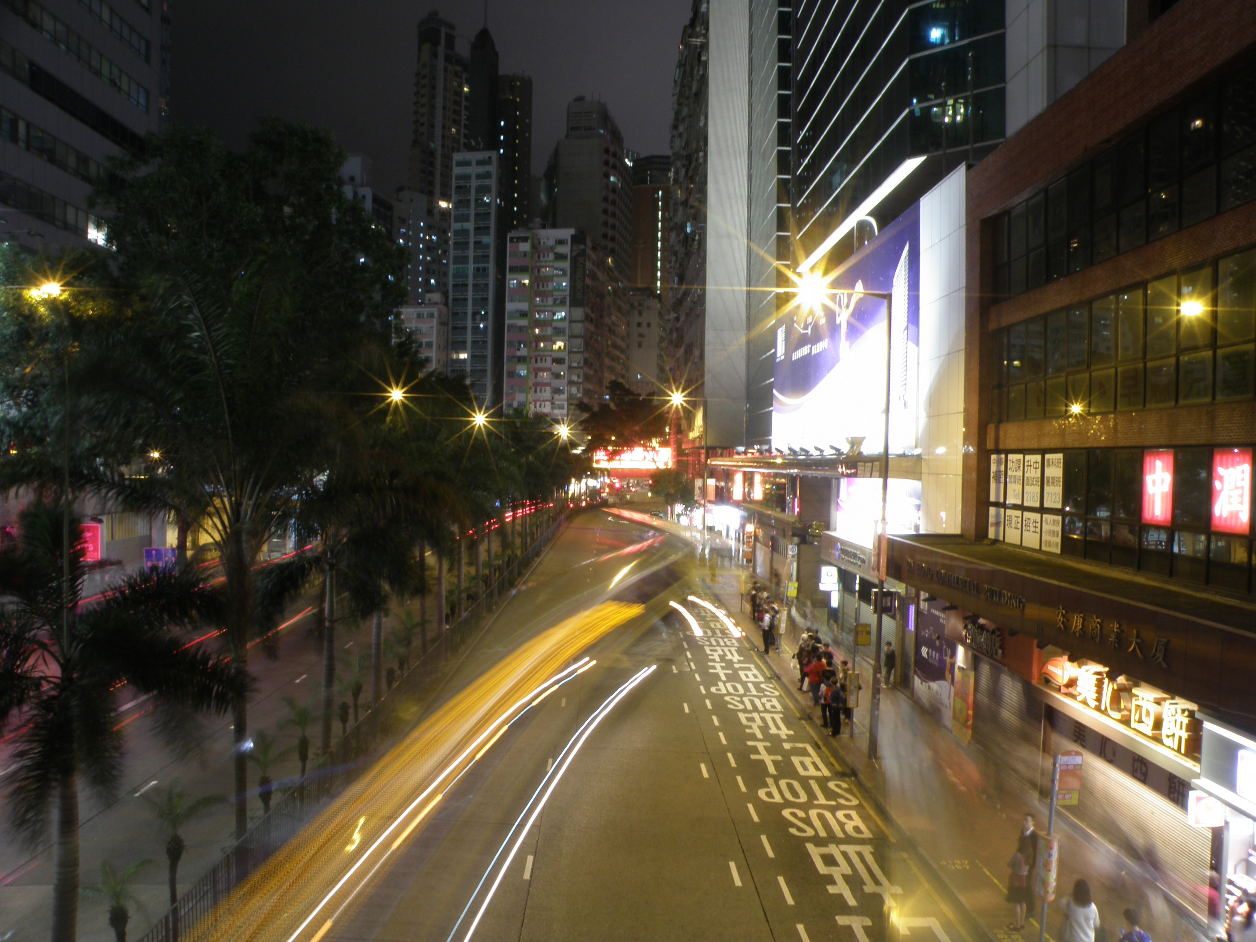 Hennessy Road in Wan Chai, Hong Kong.